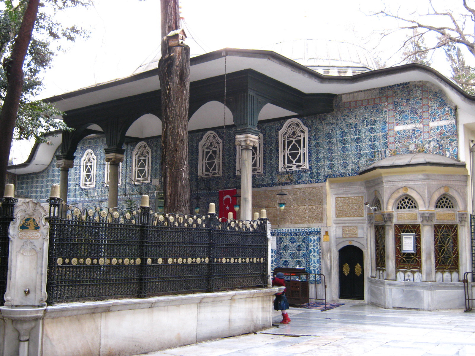 Türbe in Eyüp Sultan Mosque